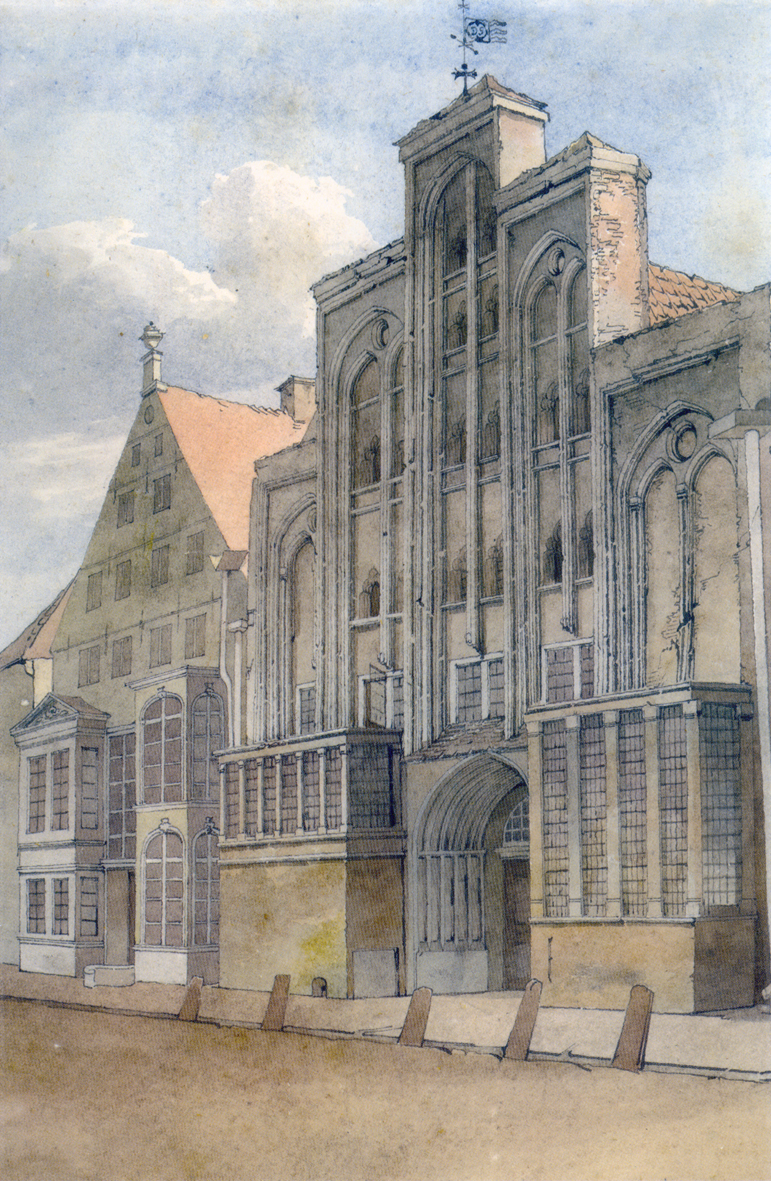 Watercolour painting of the former Speckhansche Haus (“House Speckhan”) in the Langenstraße in Bremen (Germany). The brick gothic building was erected around 1470 and dismantled in 1828.